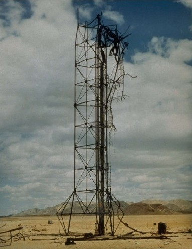 Nevada Test Site, Area 7. Test tower for the RUTH Uranium hydride bomb. The explosion failed even to level the testing tower, only somewhat damaging it.